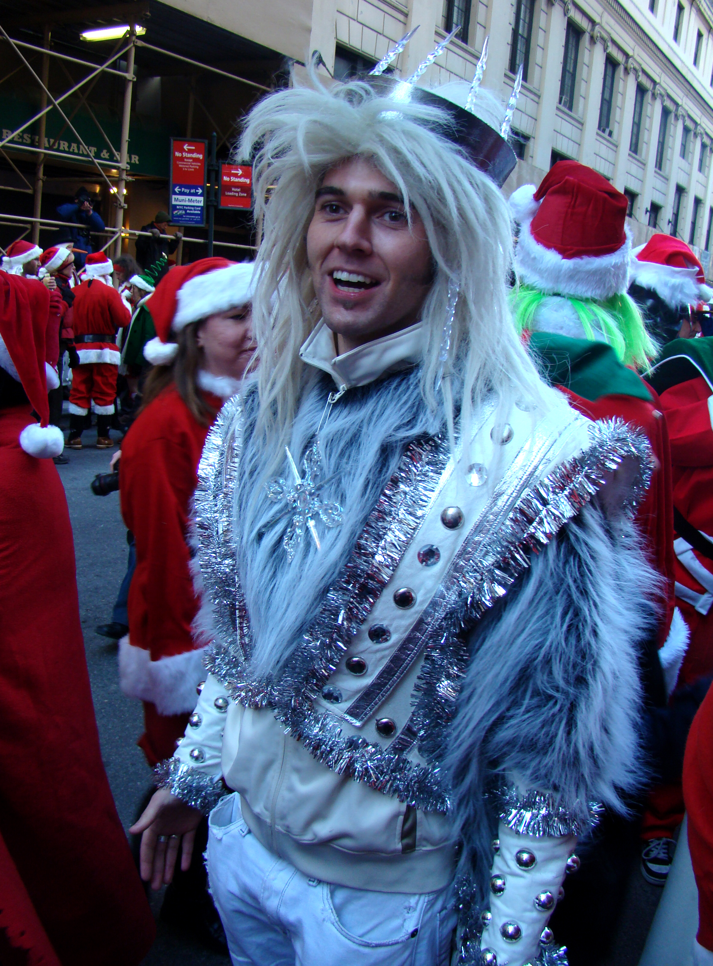 Taken at New York Santacon 2008. If this picture is of you, leave a comment and let me know.